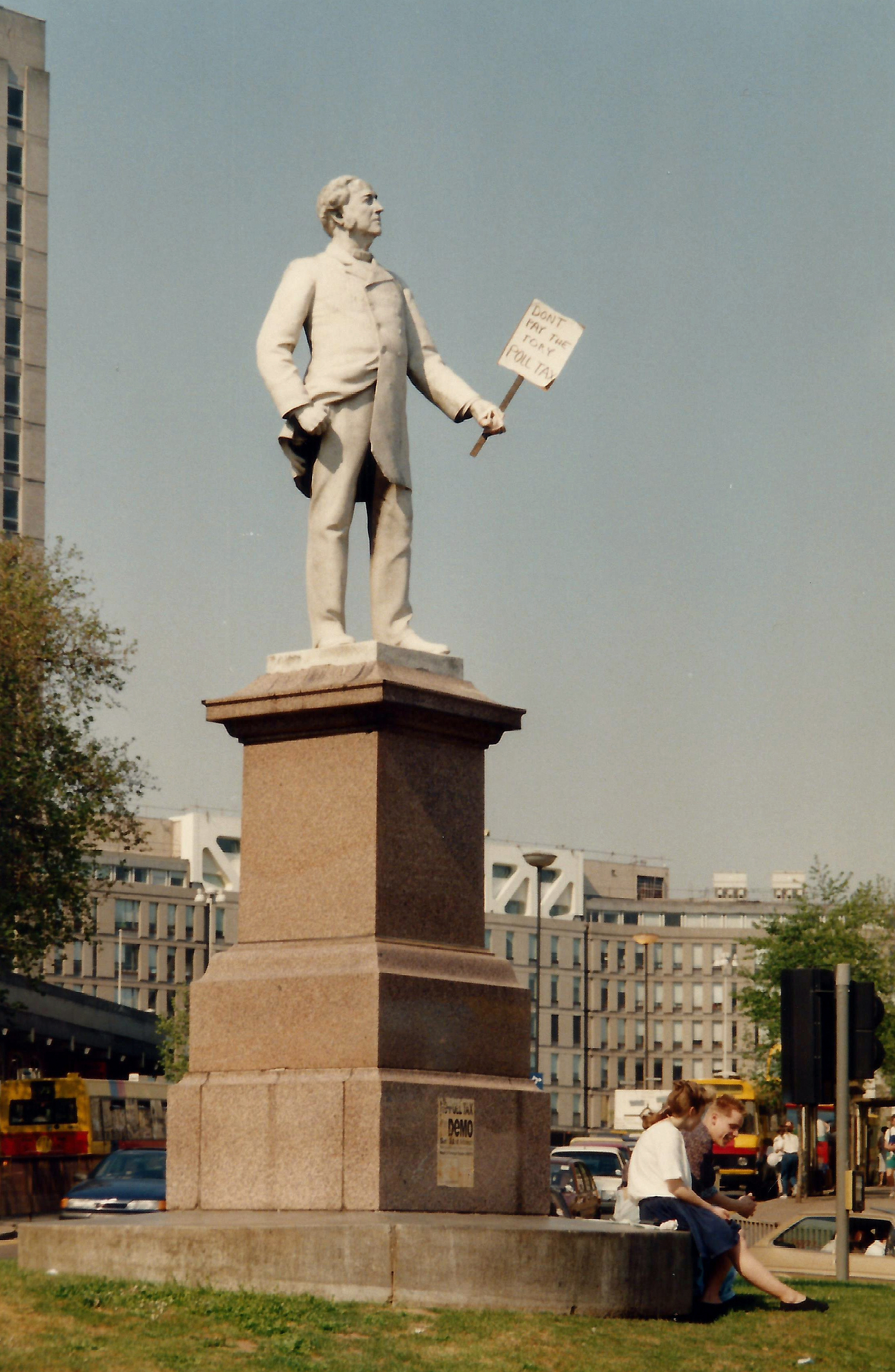 Statue of Samuel Plimsoll, Bristol; holding a handmade placard "Don't pay the Tory Poll Tax"